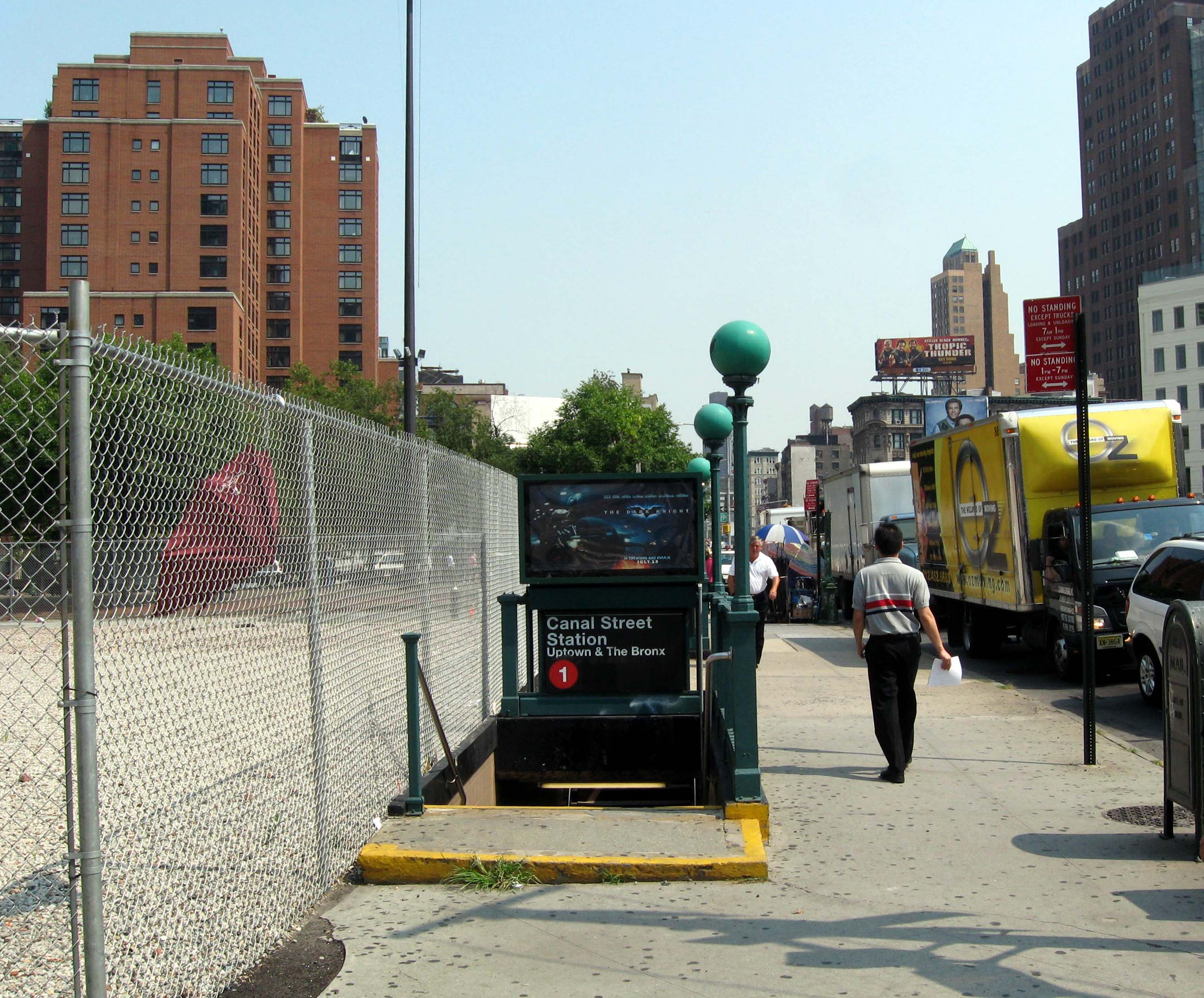 Looking southeast from Varick Street at uptown stair of Canal Street (IRT Broadway–Seventh Avenue Line) on a sunny afternoon